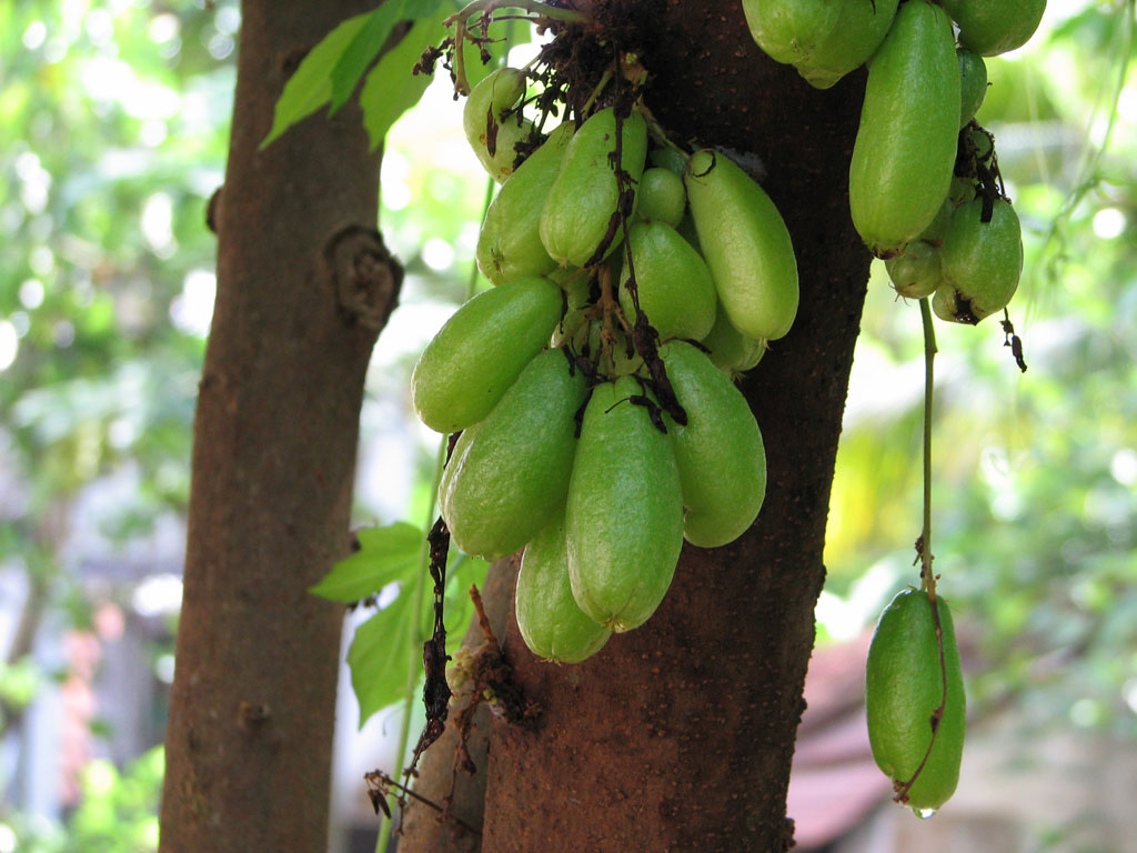 Averrhoa bilimbi More details. From the Mayyanad trip.